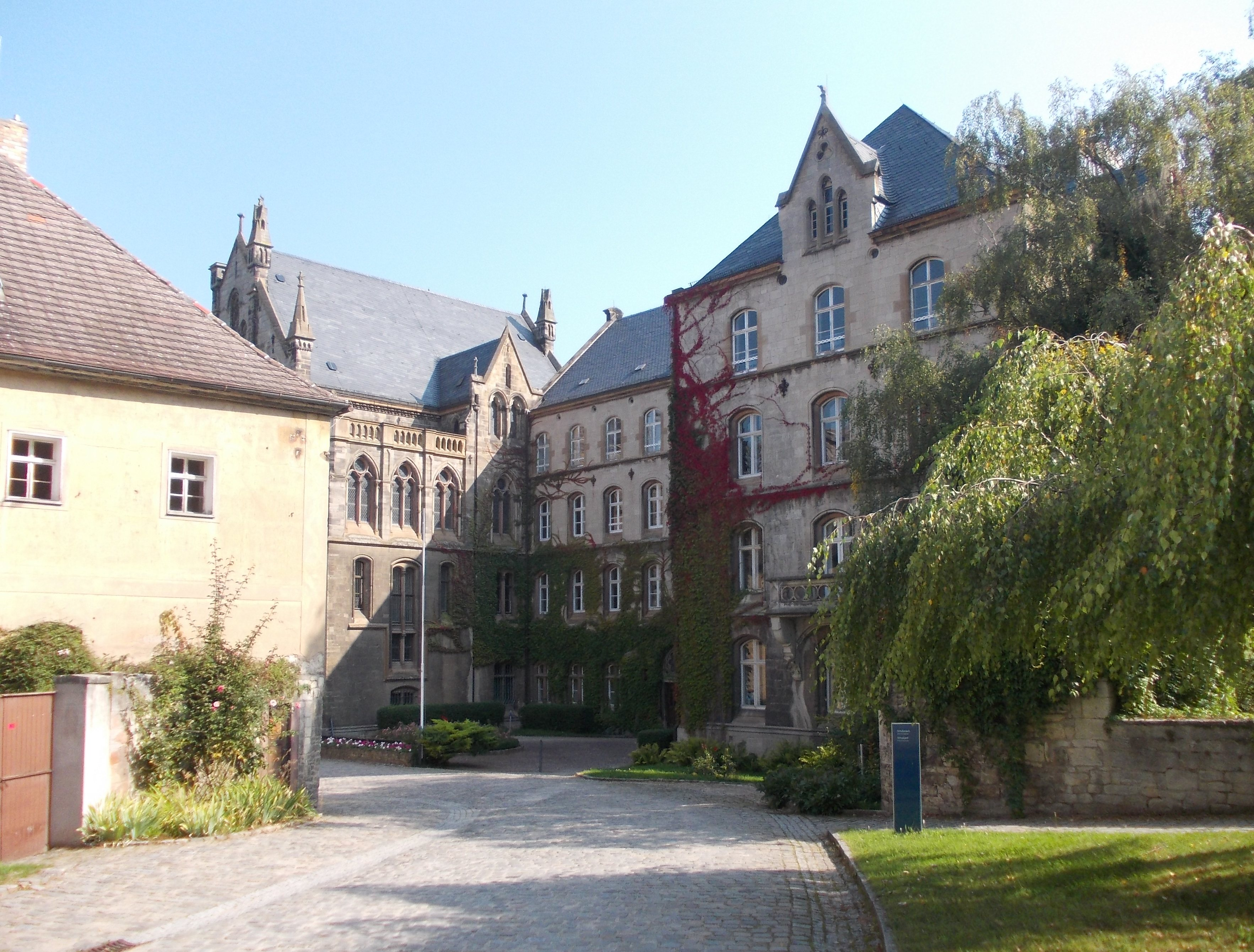 Main building of Pforta State School in Schulpforte (Naumburg, district: Burgenlandkreis, Saxony-Anhalt)